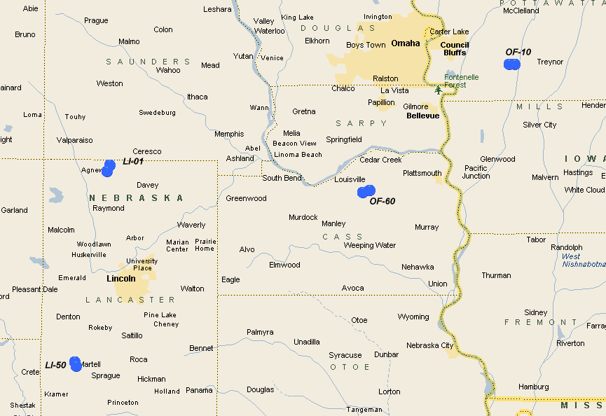 Nebraska Nike Missile Sites Nike Missile Sites